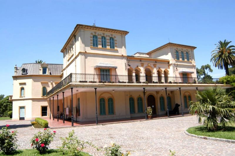 The "Casona Olivera", a mansion owned by Domingo Olivera and sold to the city of Buenos Aires in 1912. The house is located in Avellaneda Park of that city.